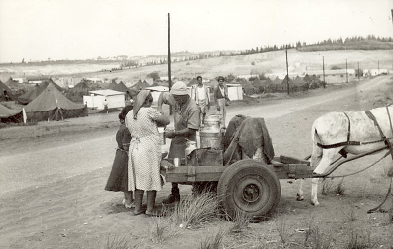 divided milk, Immigration to Israel